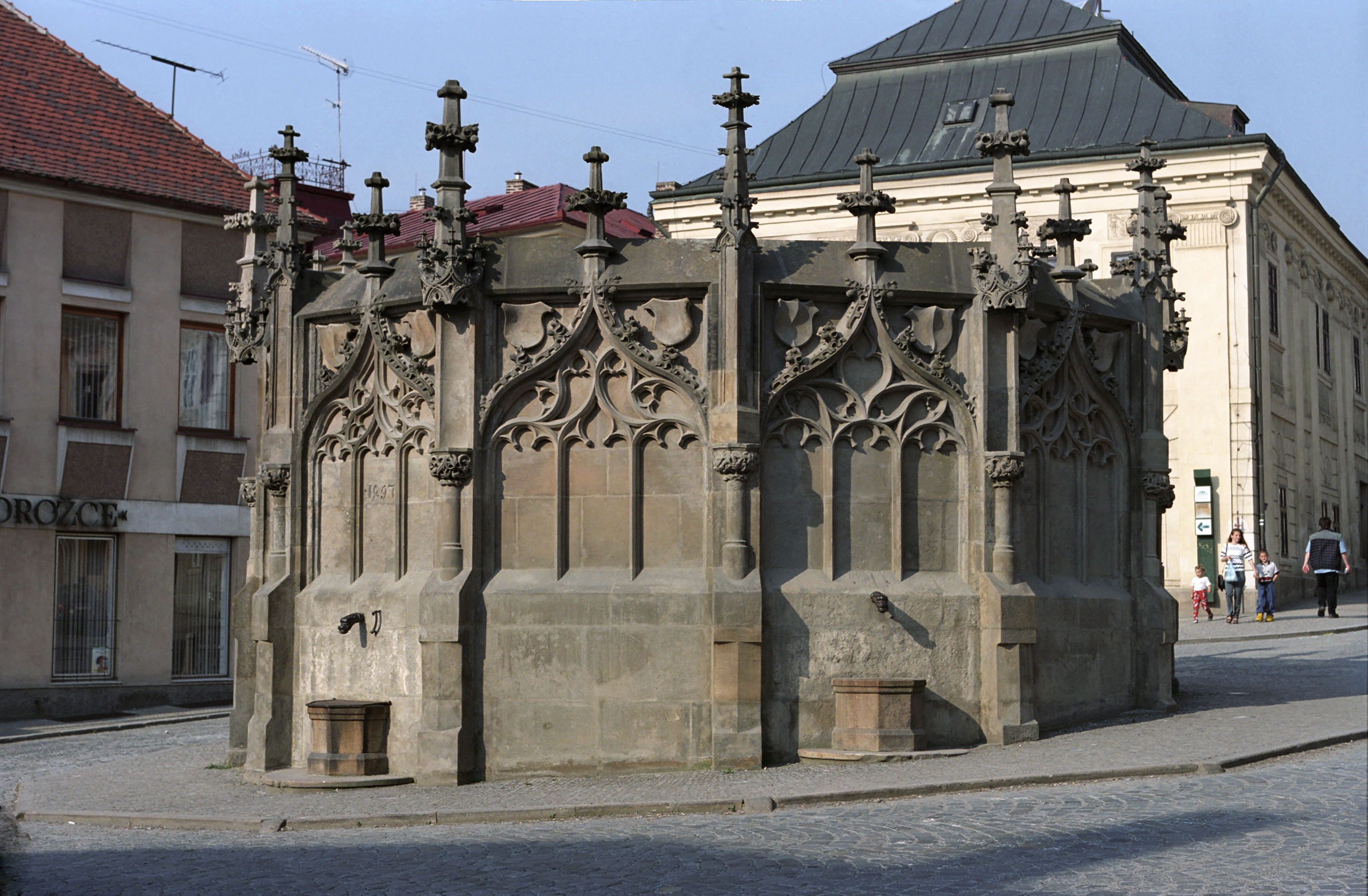 Kutná Horagg, the gothic Stone Well in Rejskovo Sq